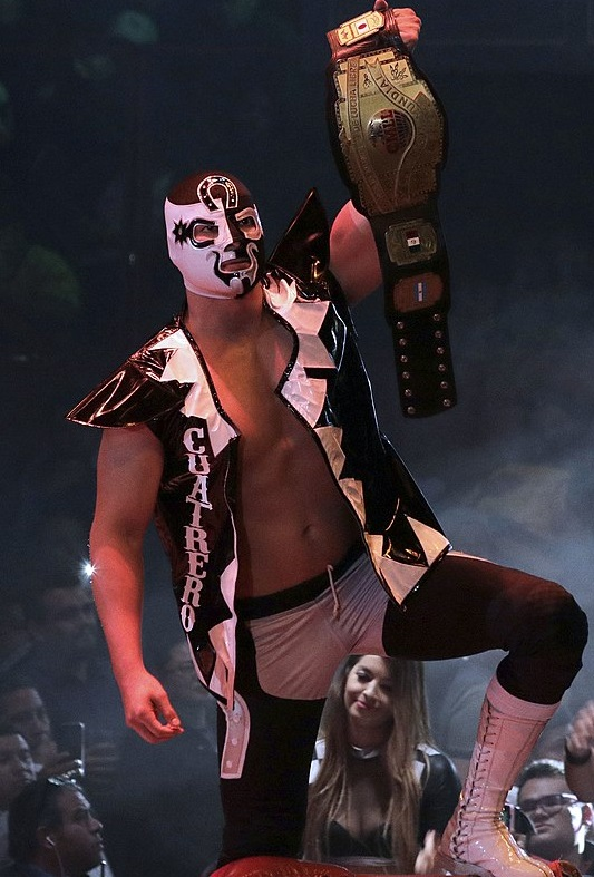 Masked professional wrestler El Cuatrero holding the CMLL World Middleweight Championship